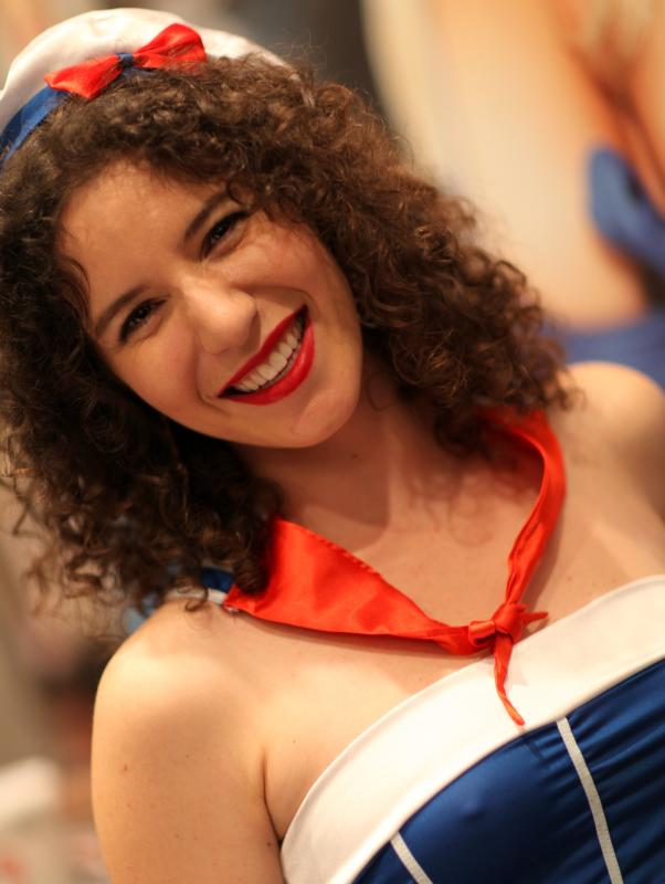 Sativa Verte at AVN Expo 2013. Photos from the 2013 AVN Expo & AVN Awards held at the at the Hard Rock Hotel & Casino in Las Vegas. Please provide photographer credit when using, tweeting, etc... Photo by Michael Dorausch This photo is licensed under a Creative Commons license. If you use this photo within the terms of the license or make special arrangements to use the photo, please list the photo credit as "Michael Dorausch" and link the credit to .